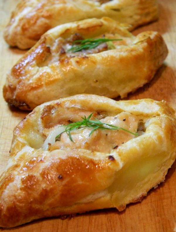 Rasstegai with salmon. Rasstegai ("unbuttoned pies") are traditional Russian pirogs with a hole in the top.